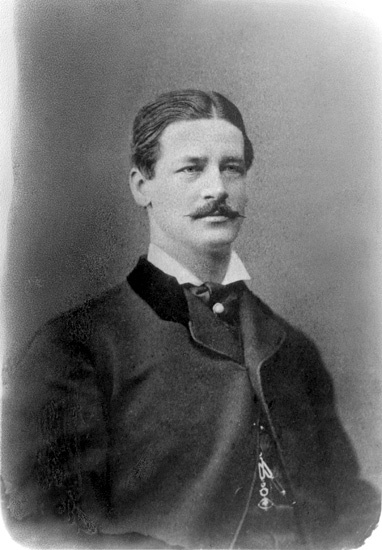 Axel Fredrik Björkman (1833-1886), brukspatron, politiker. Bosatt på Görvälns slott, Järfälla socken, i 50 år. Ägare till Görvälns slott 1862-1882.